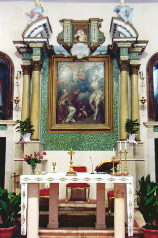 Large altar of the Church of Saints Fabiano and Sebastian, Fiamognano, Italy before decorative restoration